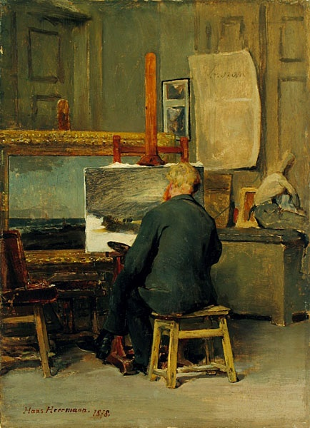 Heinrich Petersen-Angeln in Atelier